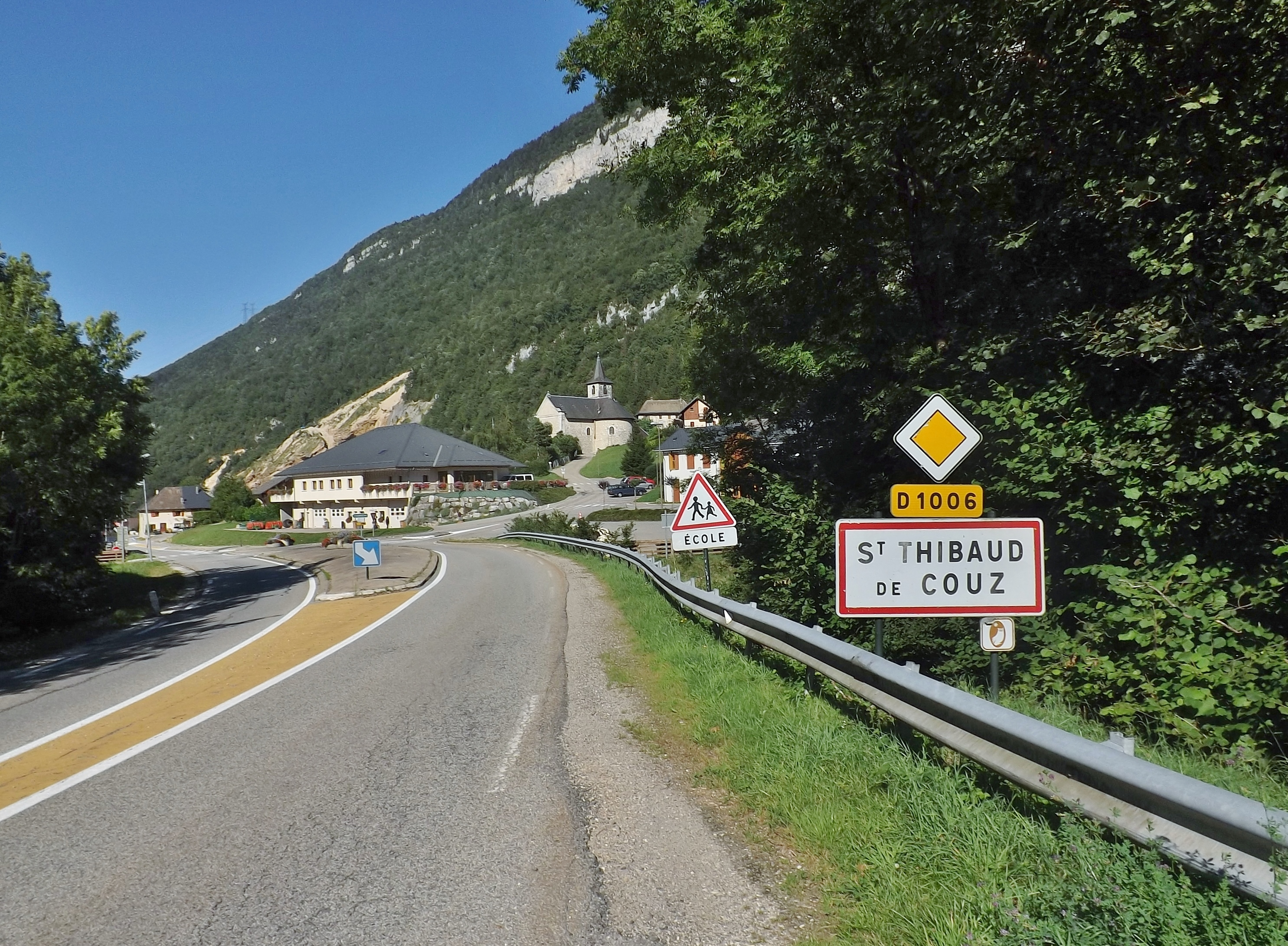 Sign welcoming to the French village of Saint-Thibaud-de-Couz in the direction of Chambéry, in Savoie.